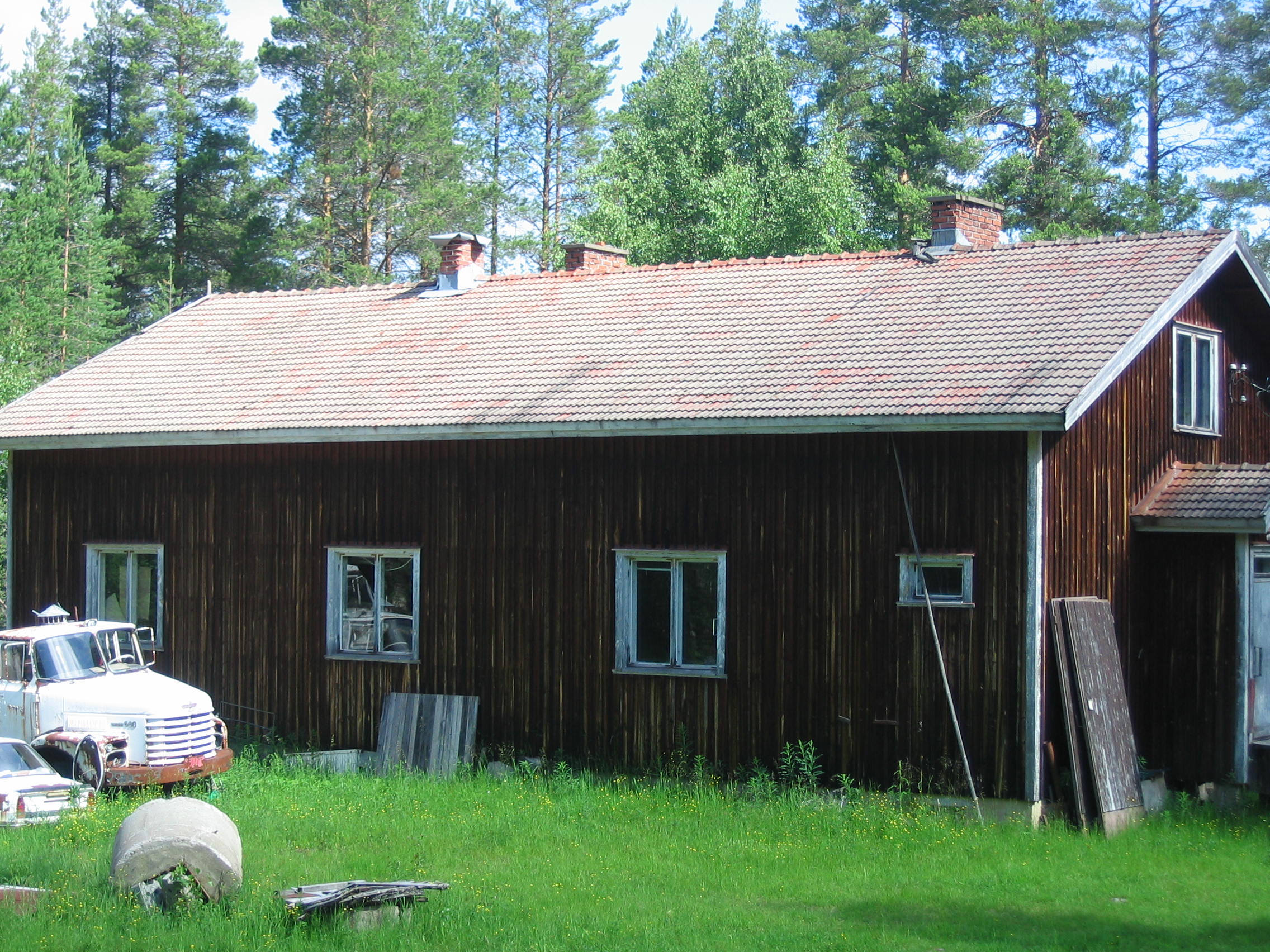 Former Sapilasmaa elementary school in Sanginkylä, Utajärvi, Finland